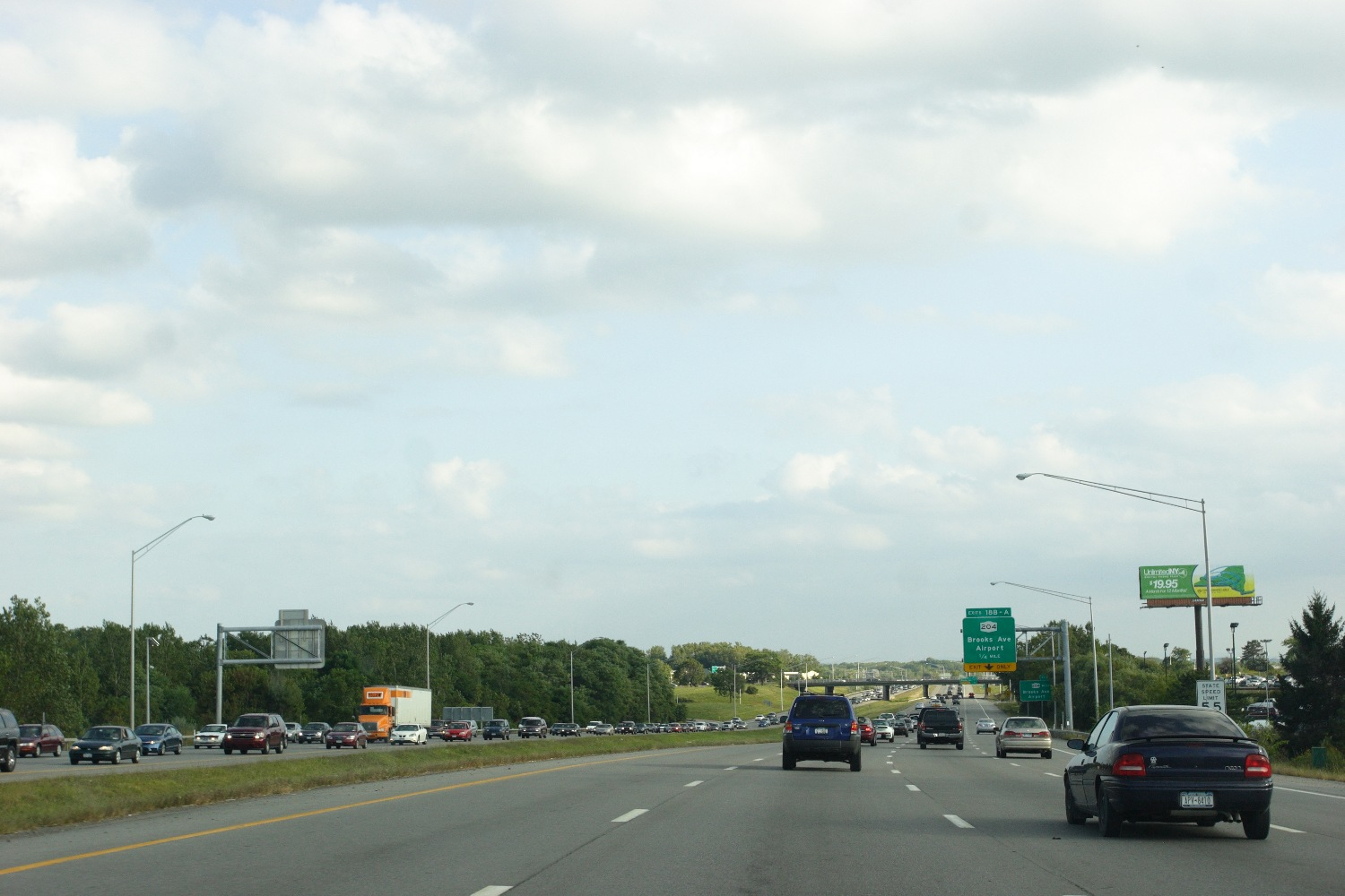 I390 SB by the Rochester Airport. Heavy northbound traffic in the afternoon is extremely common.